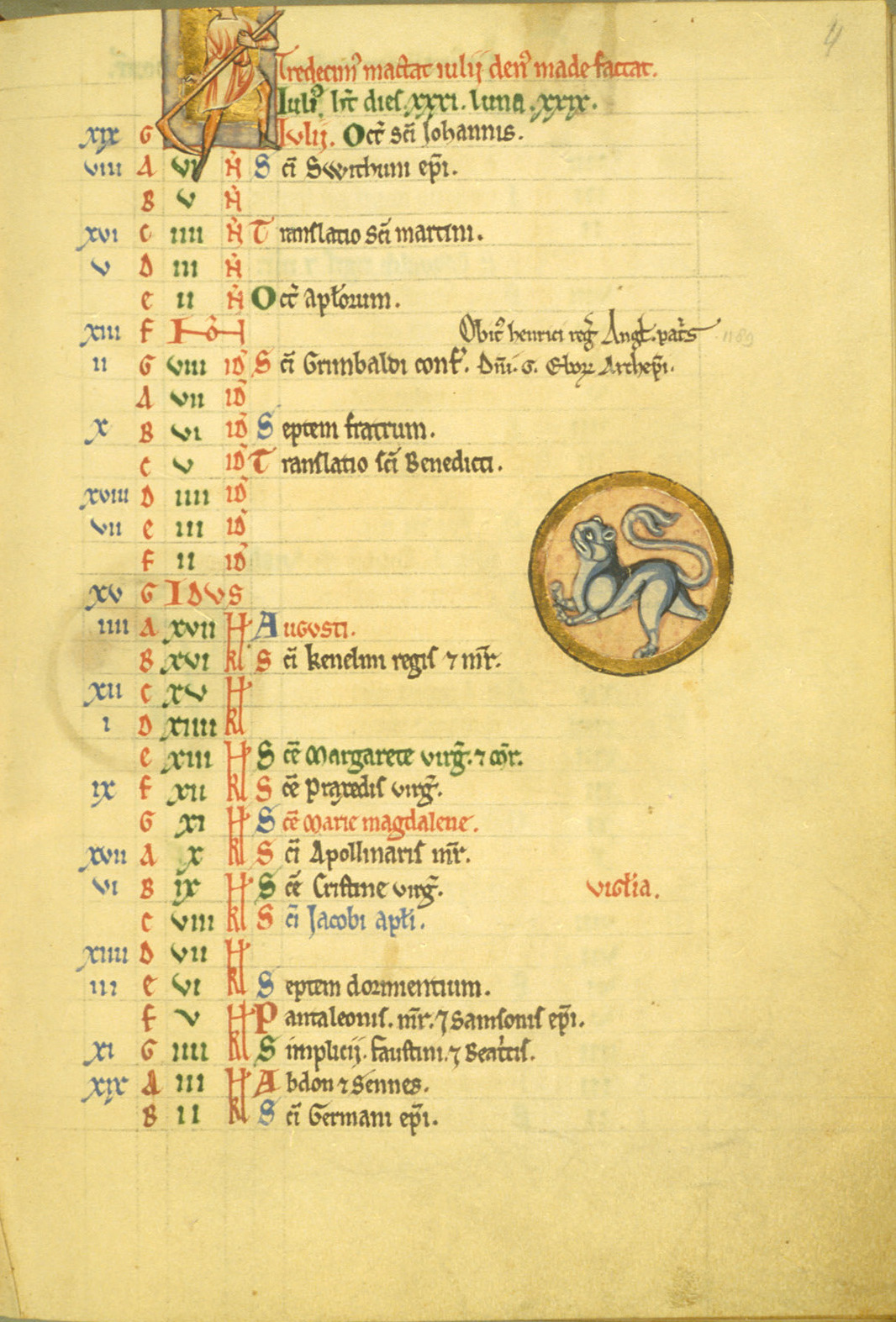 Illuminated manuscript, Calendar of saints; the month of July